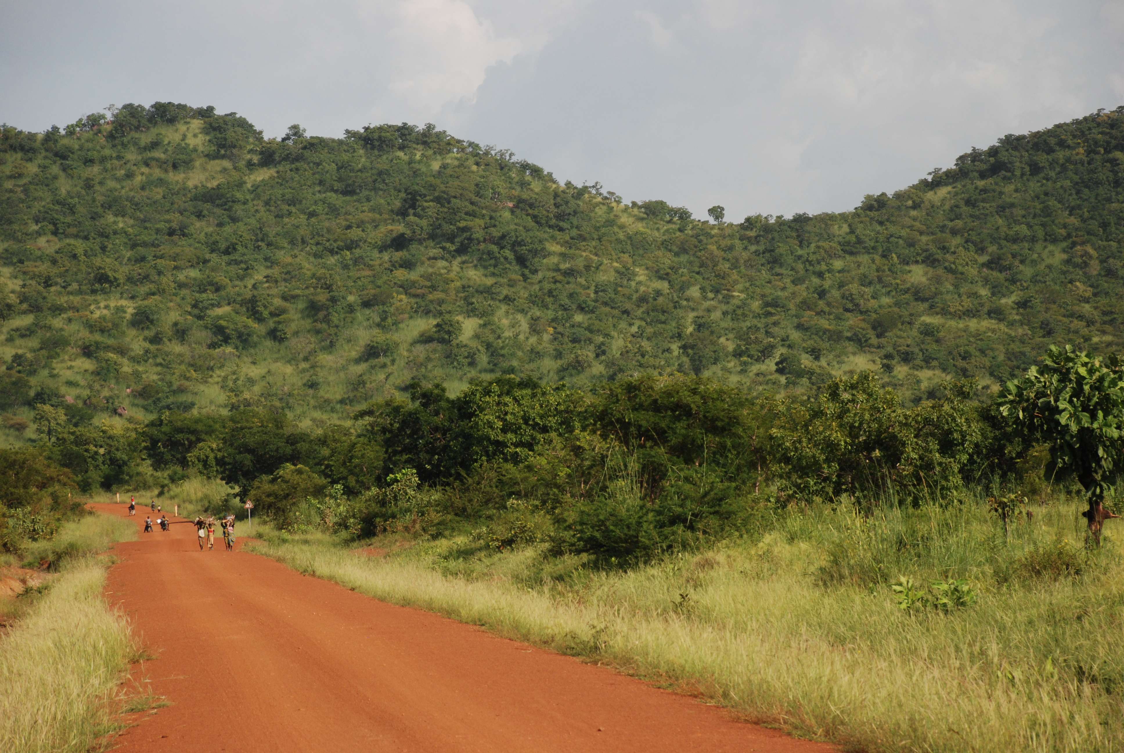 Dirt road in the Province Atakora - Benin, West Africa - close to the border of Togo - looking southward)